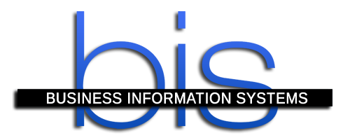 International Conference on Business Information Systems